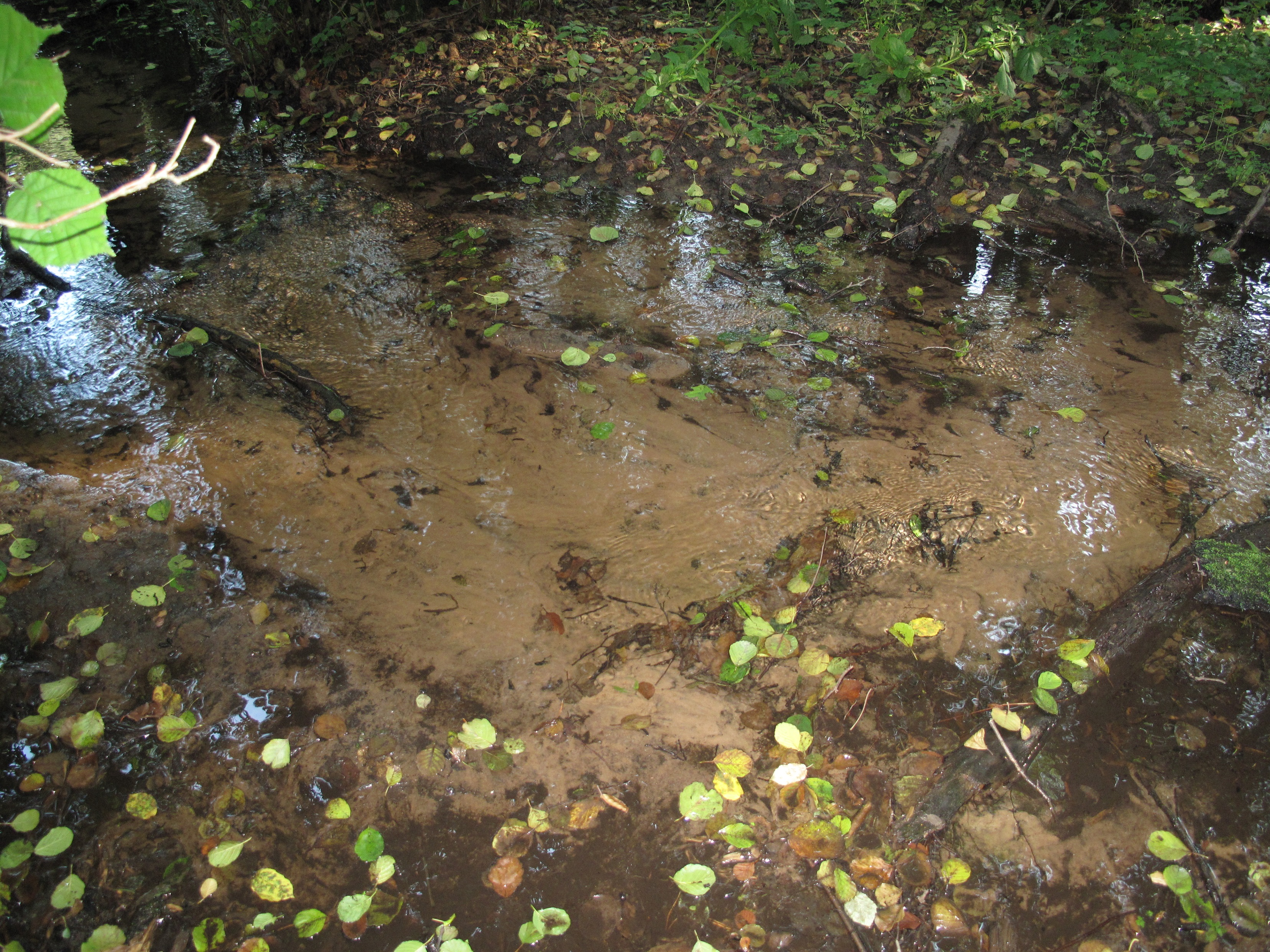 Blabbergraben at the former Blabbermühle (water mill) in the village Görsdorf. The Blabbergraben is a stream in the District Oder-Spree, Brandenburg, Germany. Coming from the „ Herzberger See“ the stream connects five small, long lakes in the municipalities Rietz-Neuendorf and Tauche and drains them into the river Spree. Including the lakes the flow length is 13,7 kilometers.